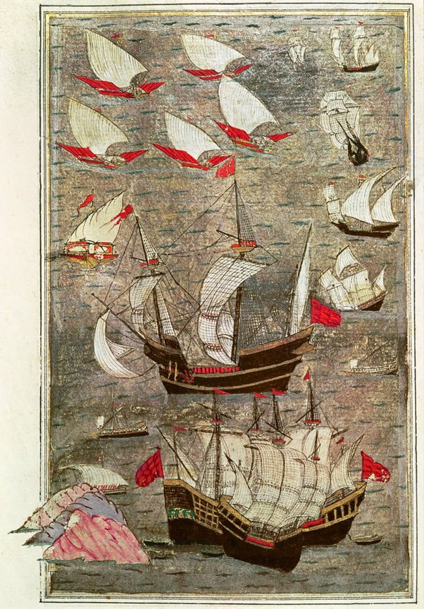 16th century Turkish painting depicting the Ottoman fleet protecting shipping in the Gulf of Aden. The three peaks on the left symbolize Aden.